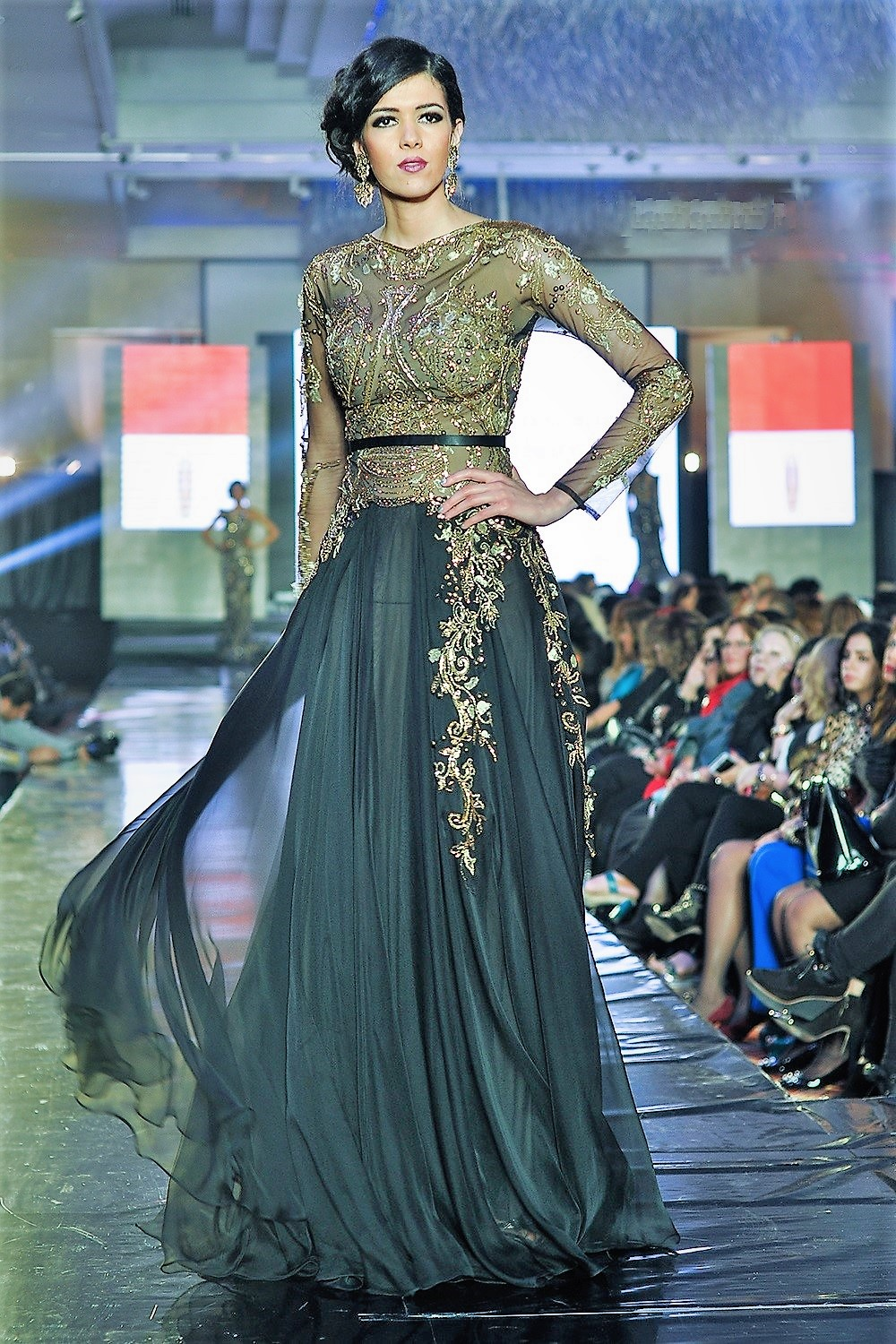 Ahmed Arafa Photography Model : Donia Hamed Miss egypt 2010 Hany ElBehairy HAUTE COUTURE 2015 Makeup/hair : Mohamed al sagheer group